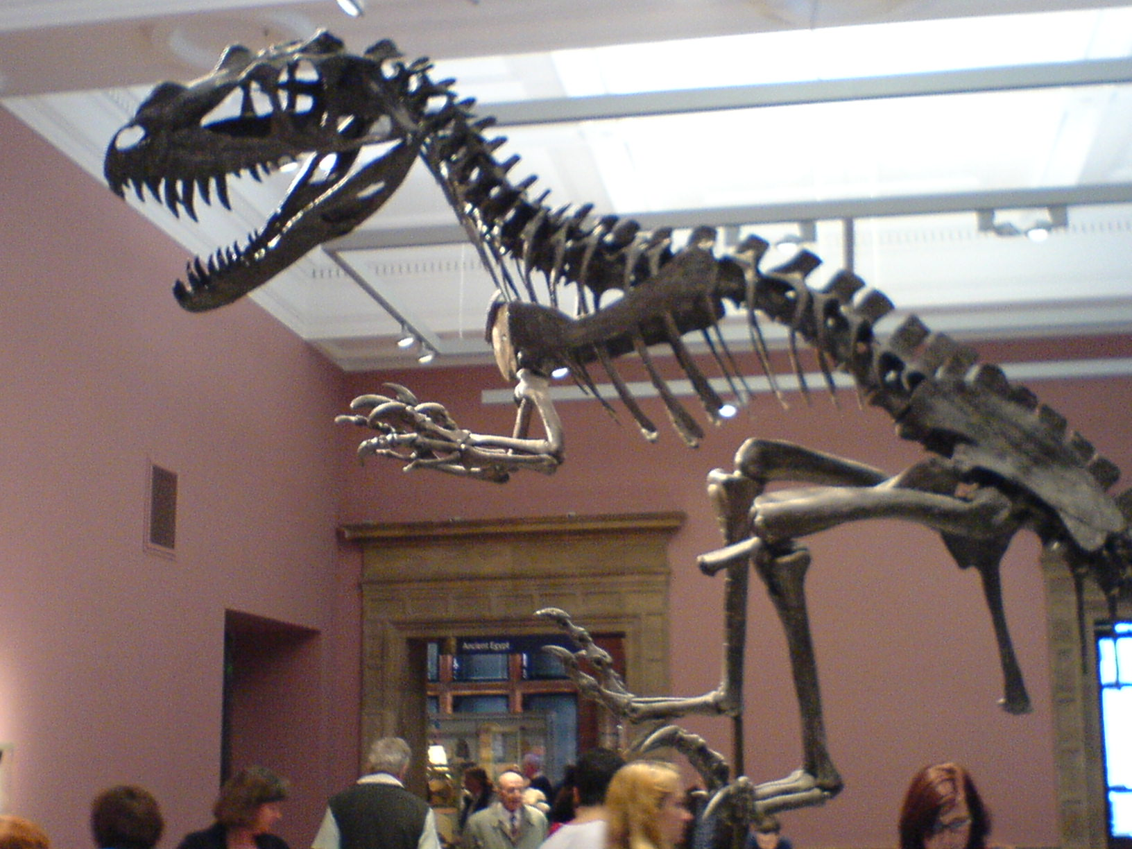 Ceratosaurus skeleton, Kelvingrove Art Gallery and Museum.